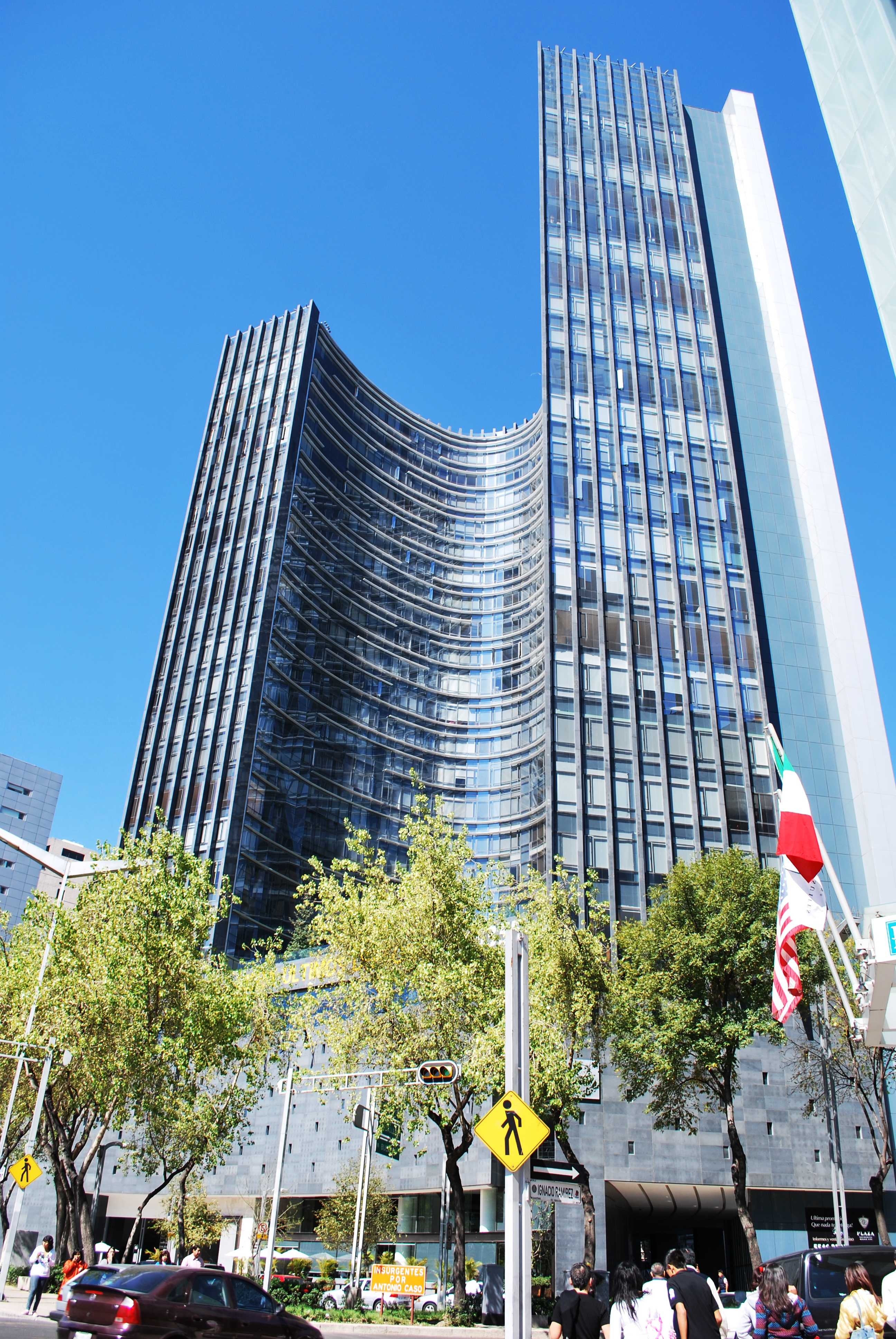 High rise structure at Paseo de la Reforma and Antonio Caso in Mexico City